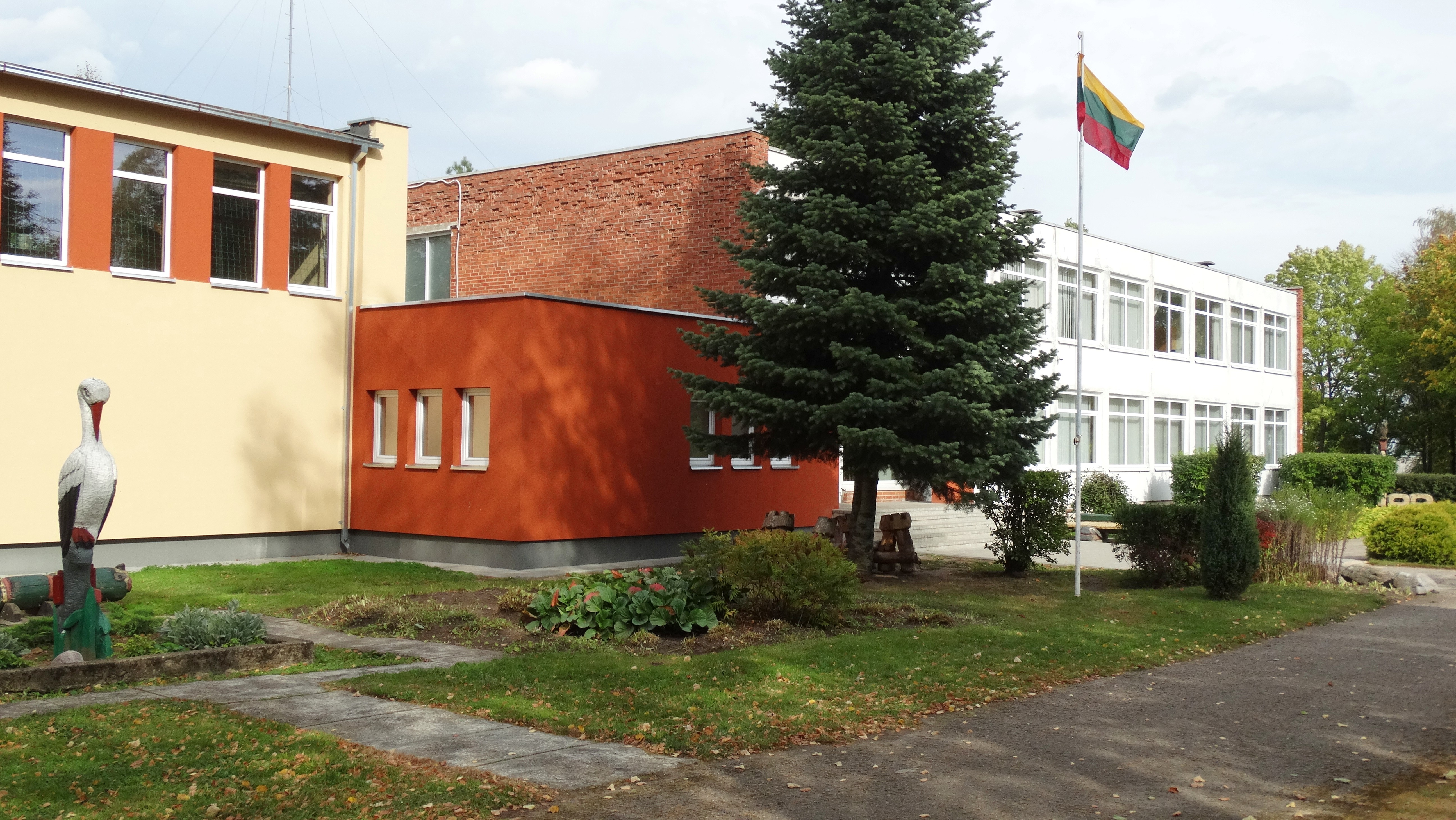 School in Šilavotas, Prienai district, Lithuania